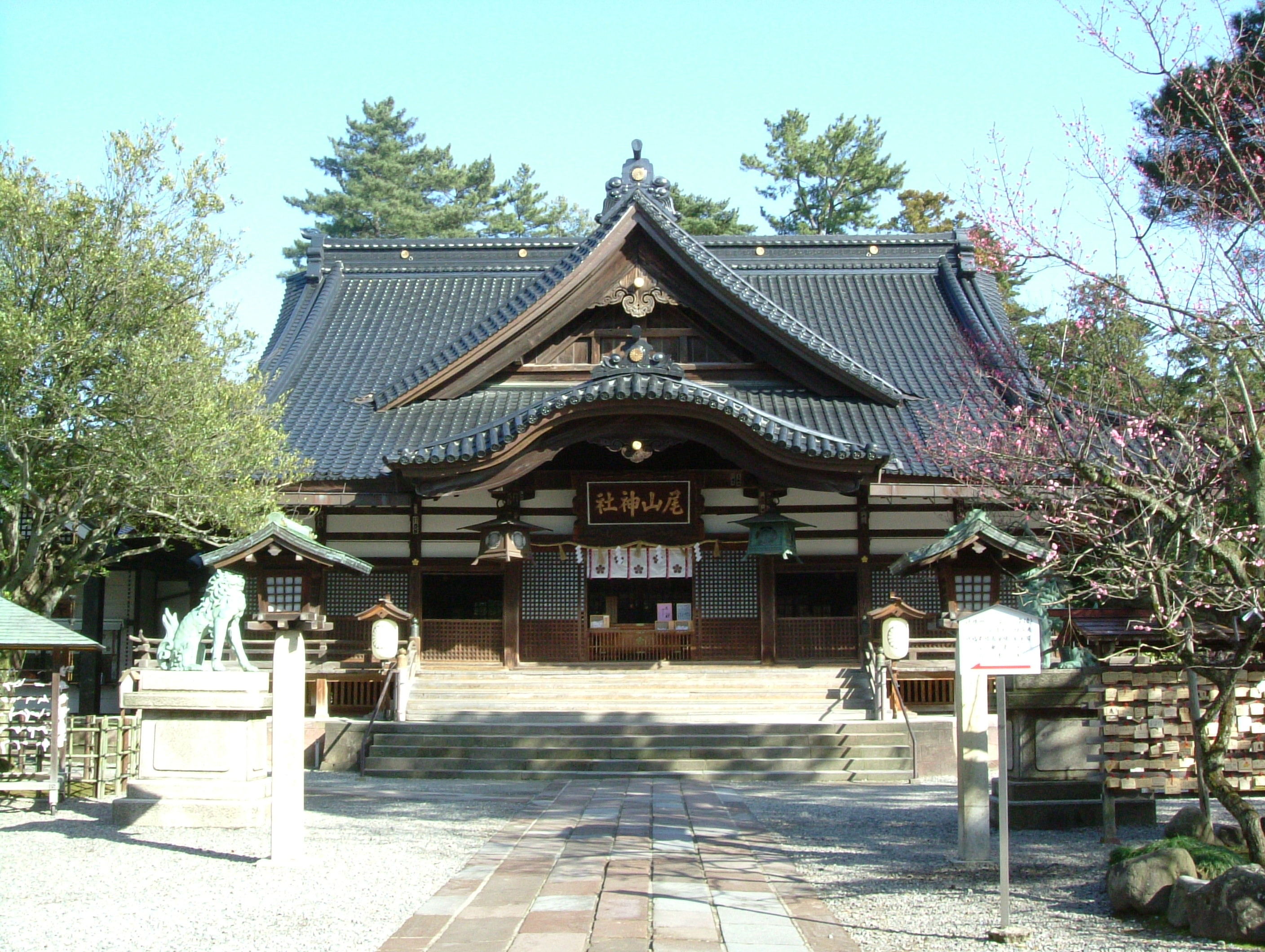 Oyama-jinja in Kanazawa, Ishikawa, Japan